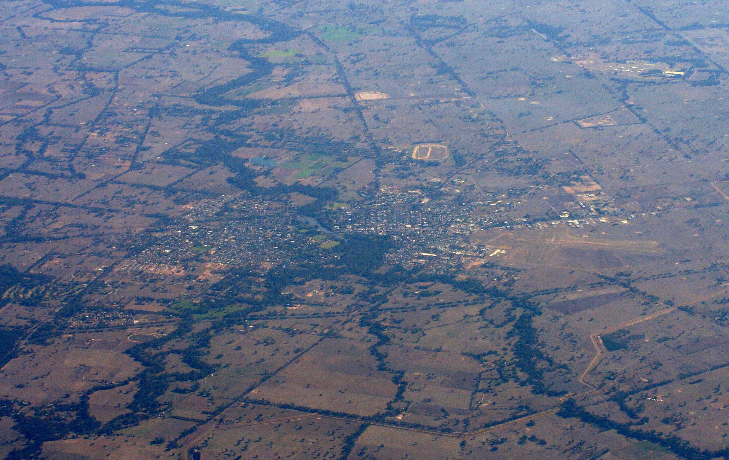 Overview of Benalla, Victoria